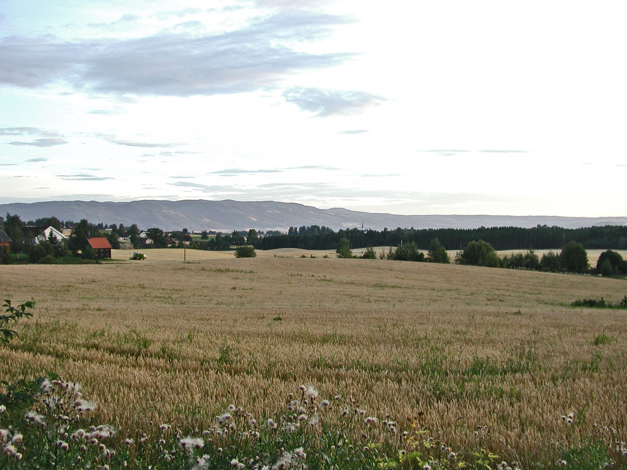 View of the fertile area of Strange Norway; ; Photography by Leif Knutsen